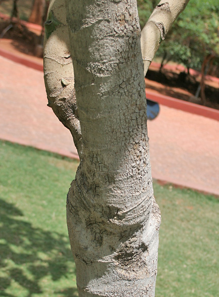 Octopus Tree Schefflera actinophylla in Hyderabad , India.